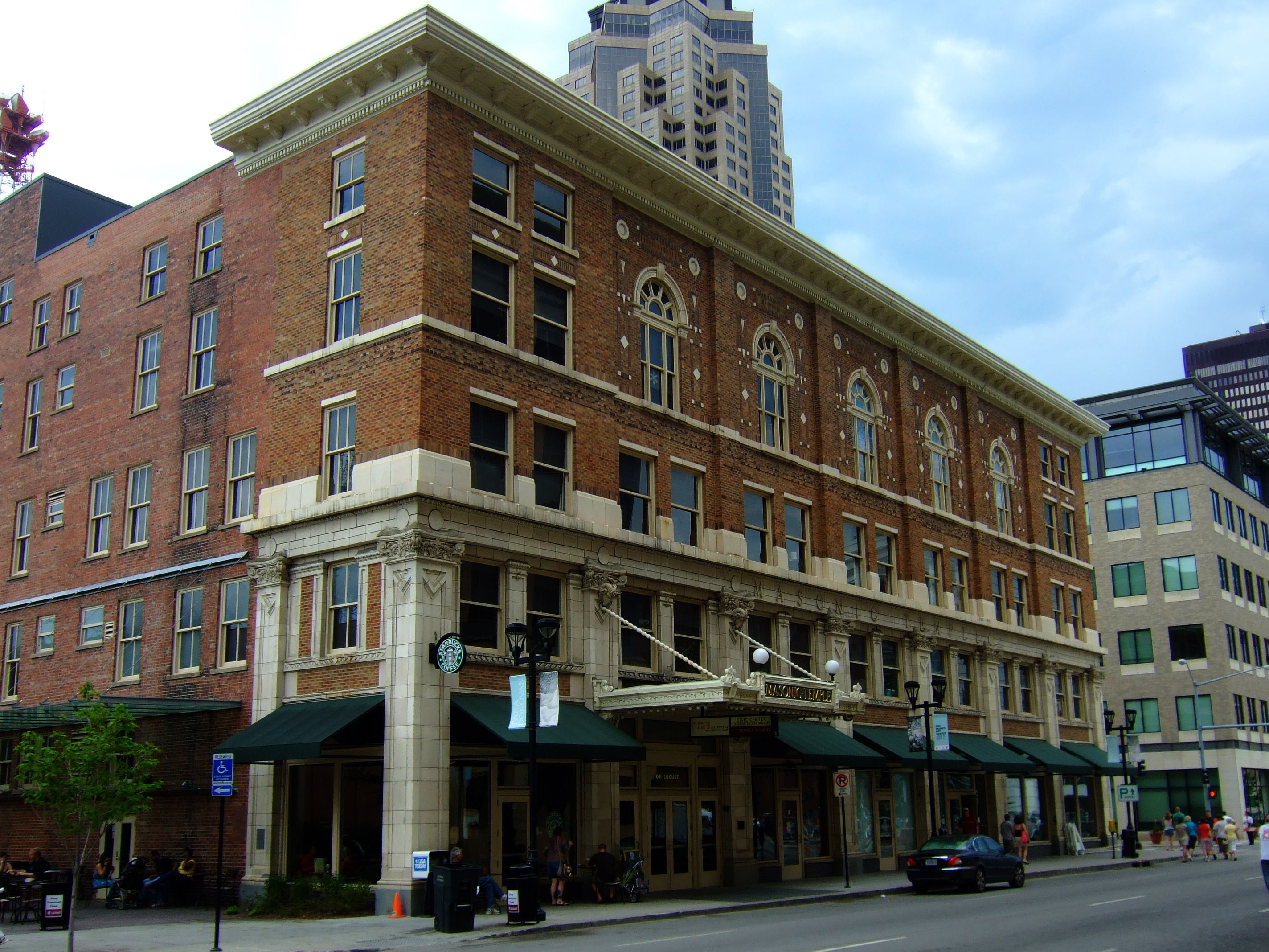 The Masonic Temple (1913) at 1011 Locust Street in Des Moines, Iowa. Added to the National Register of Historic Places in 2001.